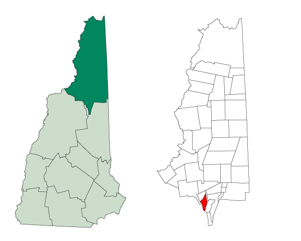 Map of a municipality in Coos County, New Hampshire